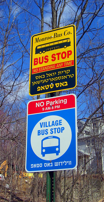 Yiddish Bus Stop signs. Yiddish text on upper sign says: "Kiryas Joel Bus Transportation, Bus Stop." Yiddish text on lower sign says: "Village Bus Stop."